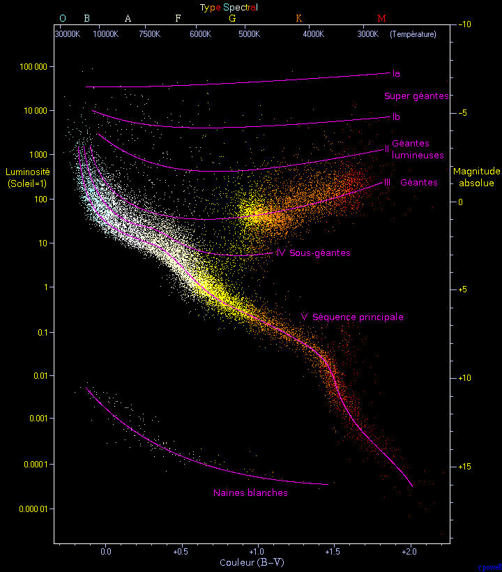 Hertzsprung-Russell diagram. A plot of luminosity (absolute magnitude) against the colour of the stars ranging from the high-temperature blue-white stars on the left side of the diagram to the low temperature red stars on the right side. "This diagram below is a plot of 22000 stars from the Hipparcos Catalogue together with 1000 low-luminosity stars (red and white dwarfs) from the Gliese Catalogue of Nearby Stars. The ordinary hydrogen-burning dwarf stars like the Sun are found in a band running from top-left to bottom-right called the Main Sequence. Giant stars form their own clump on the upper-right side of the diagram. Above them lie the much rarer bright giants and supergiants. At the lower-left is the band of white dwarfs - these are the dead cores of old stars which have no internal energy source and over billions of years slowly cool down towards the bottom-right of the diagram." Converted to png and compressed with pngcrush.